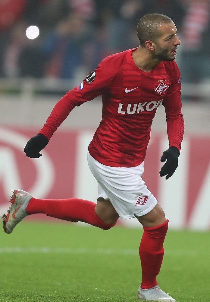 Sofiane Hanni